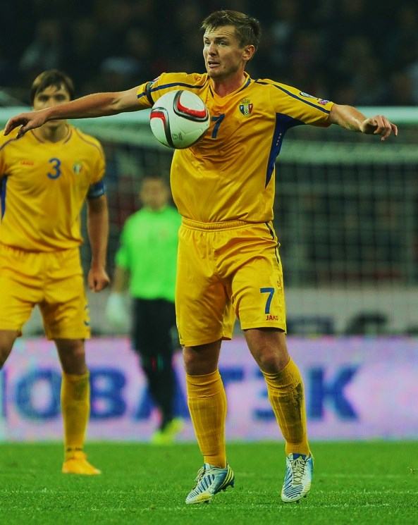 Andrei Cojocari